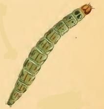 Stainton’s Natural History of the Tineina (1855–1873): Kessleria saxifragae